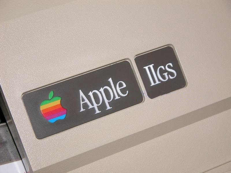 A close up of the Apple IIGS metal logo badge, used in the Apple IIe to IIgs upgrade. Taken from (Permission has been received from the copyright holder to make use of this image on Wikipedia).